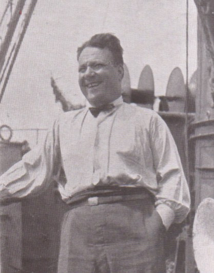 Photo of Alberto Gianni on the recovery ship Artiglio, taken from the book Viaggio nel mondo sommerso by Ulderico Tegani (1931).